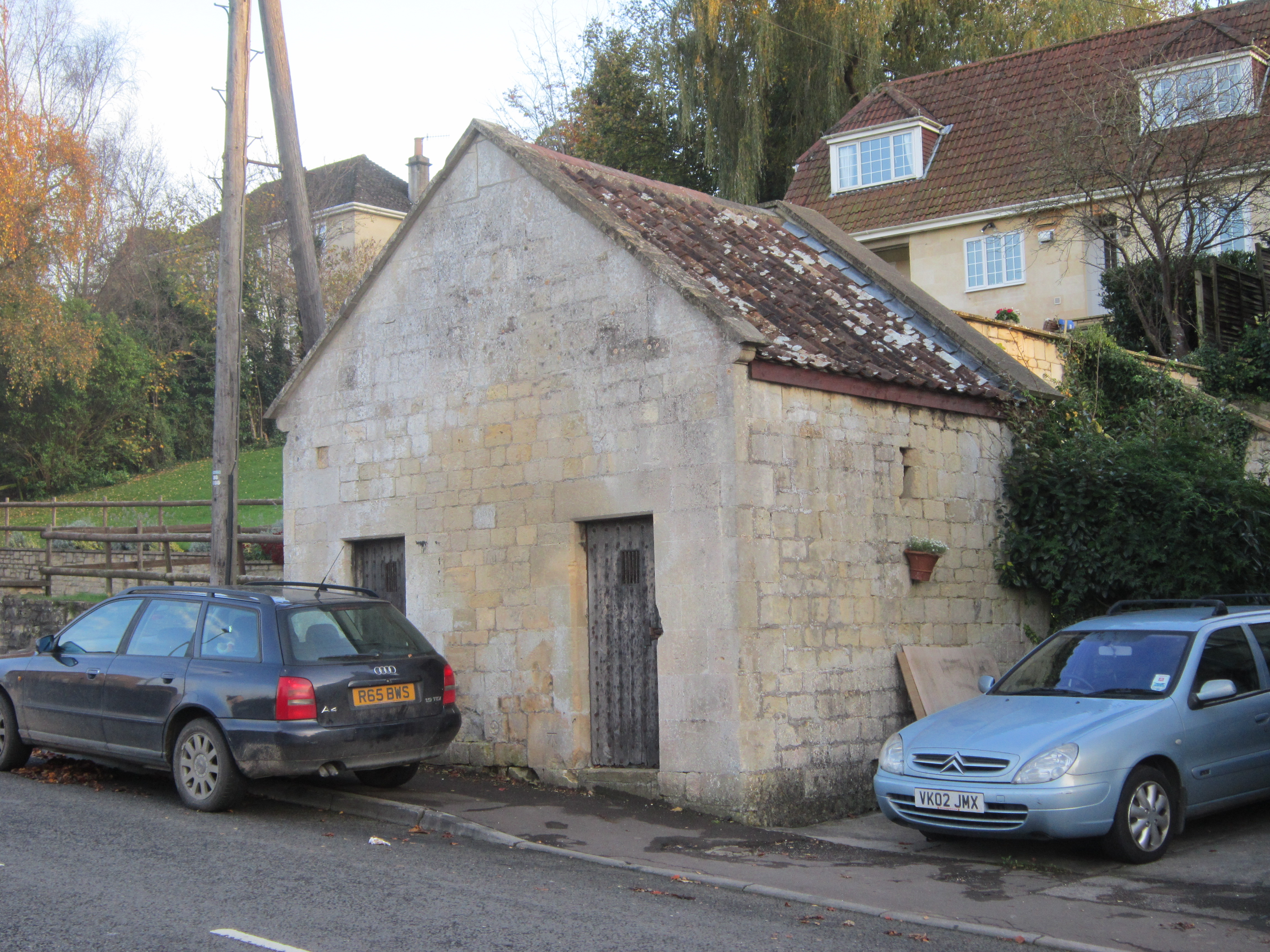 Village lock-up in Bathford, Somerset